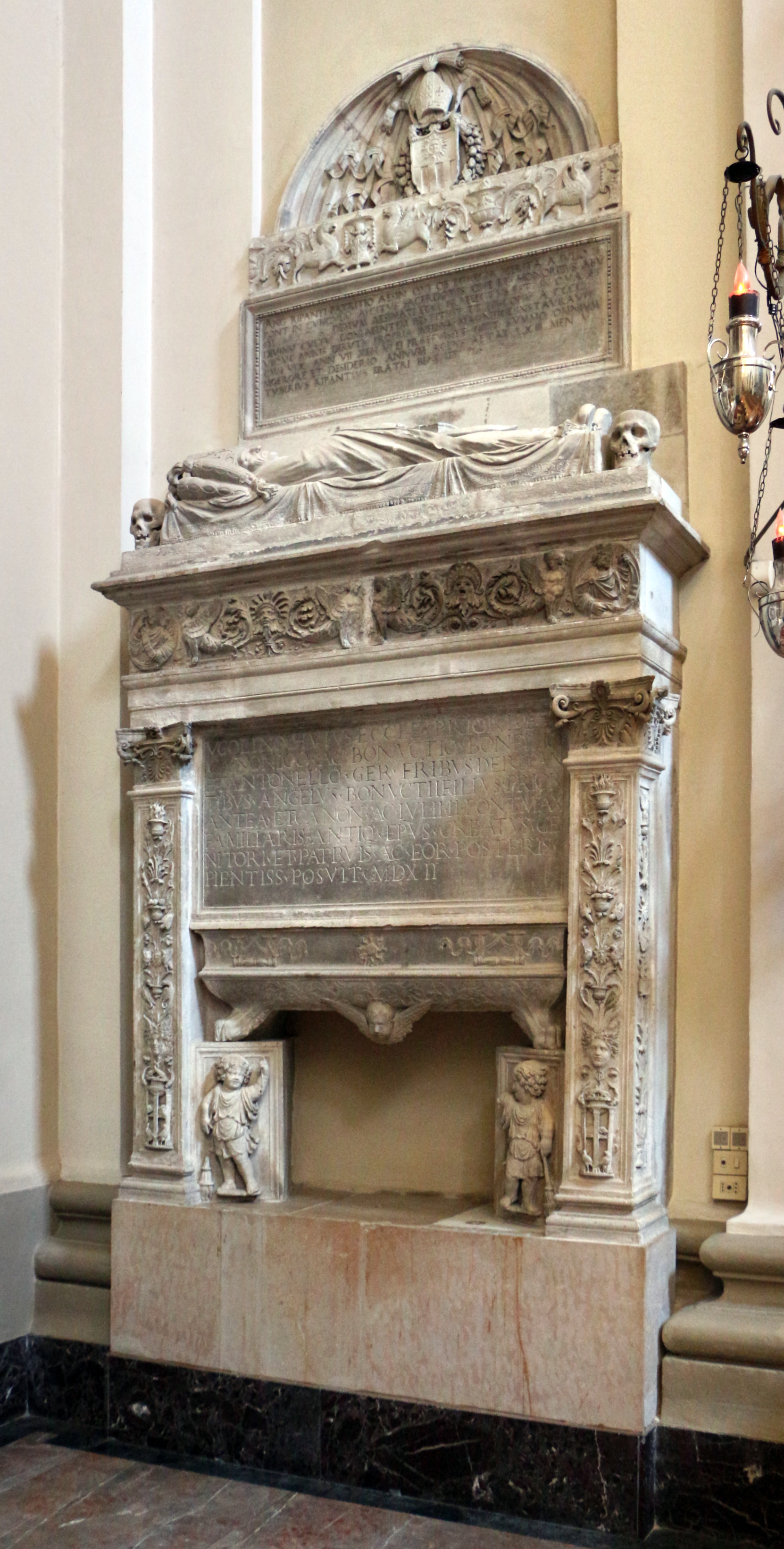 Duomo (Jesi)